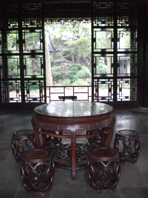 Suzhou, Humble Administrator's Garden, 1509-59